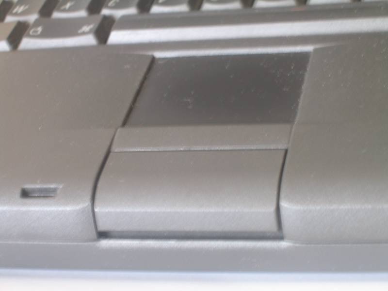 Touchpad of a 1995 Apple Powerbook 5300